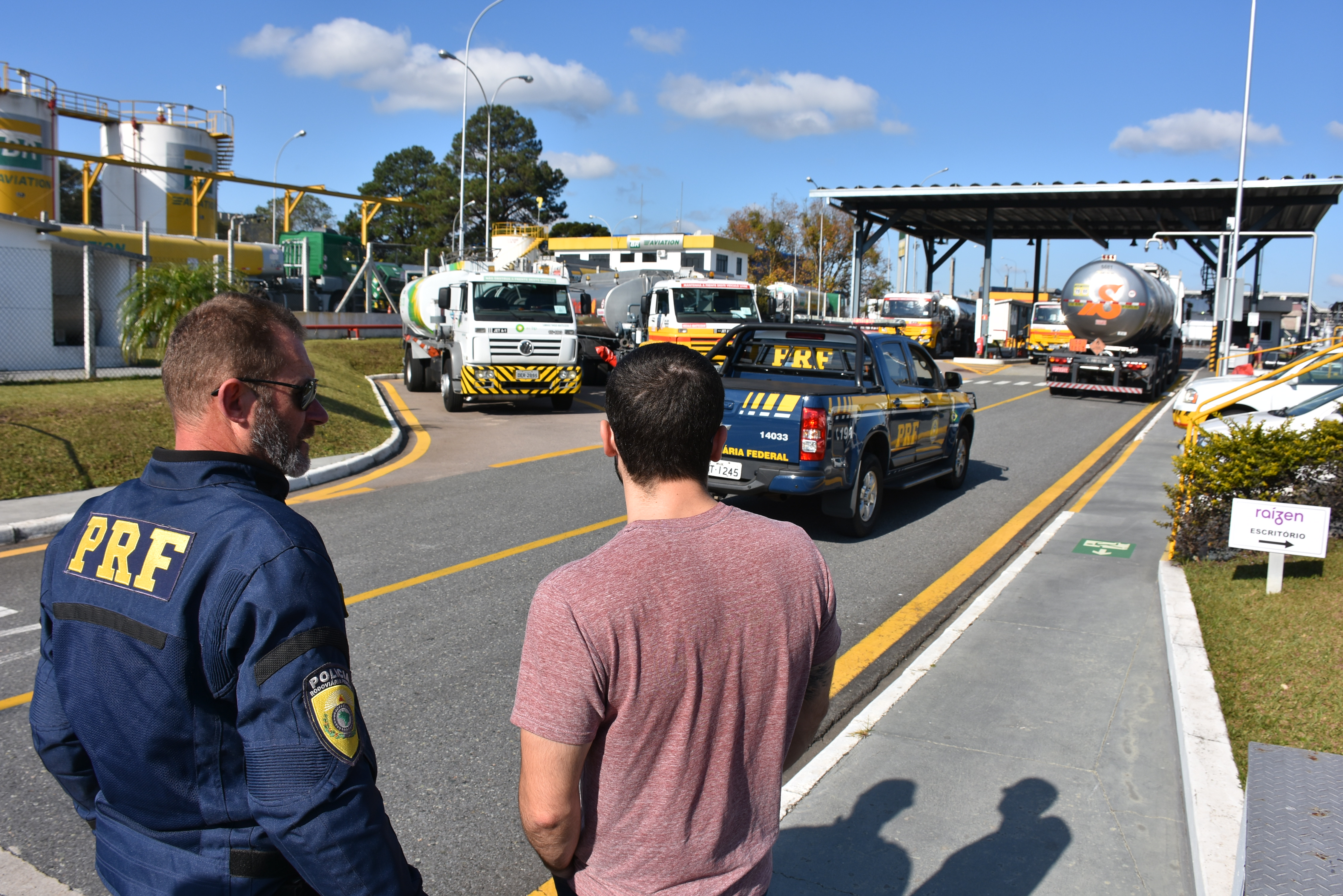 Brazil Federal Police escorts fuel truck during strike